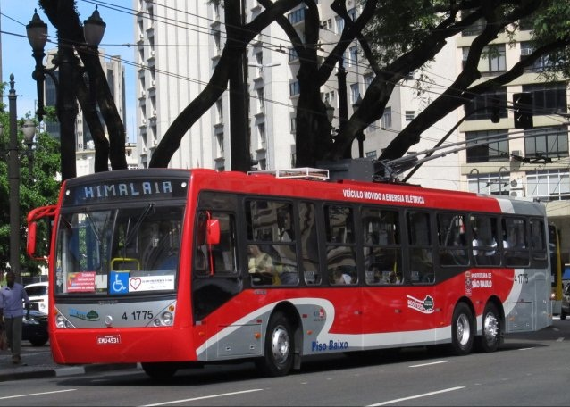 Three-axle (15-meter) CAIO trolleybus No. 1775, built in 2011, in São Paulo, Brazil